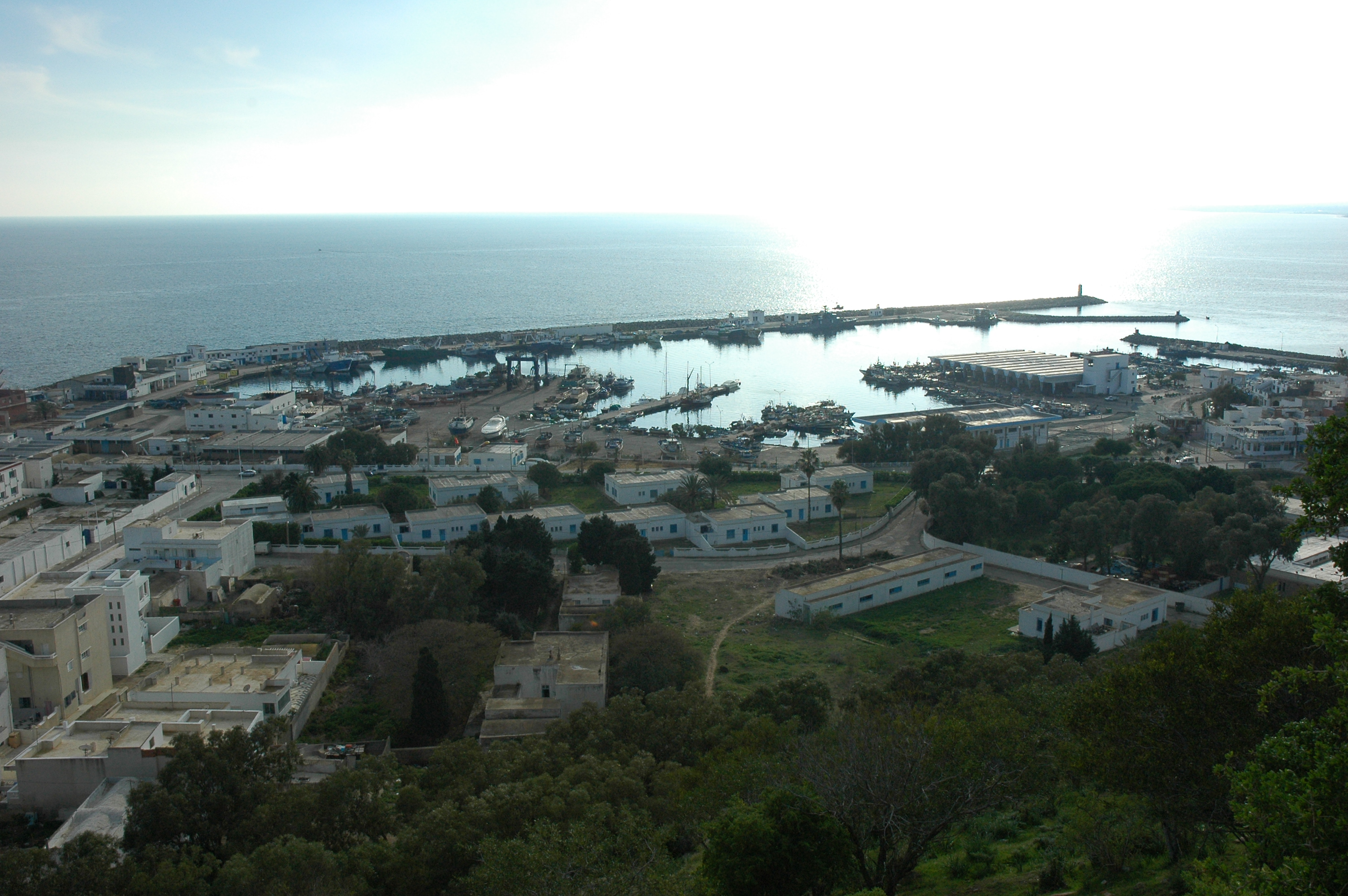 Tunisia, Kelibia